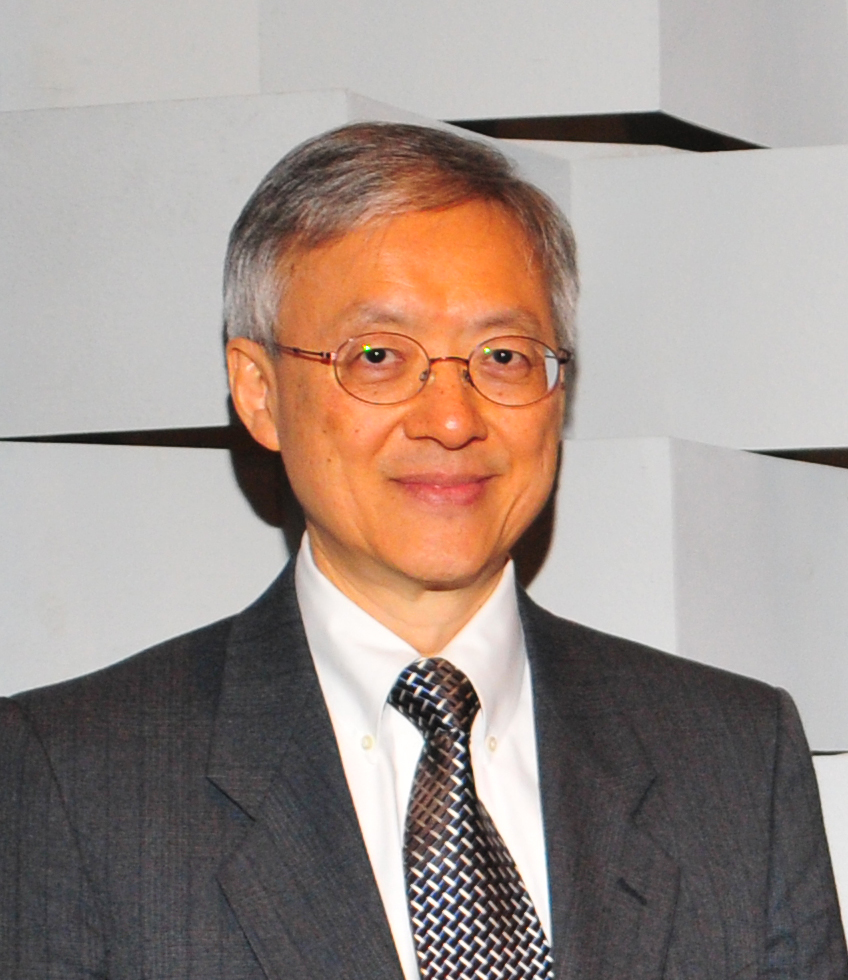 Photograph of James Y. Chao, of Westlake Chemical Corporation, at the International Petrochemical Conference of the American Fuel and Petrochemical Manufacturers (AFPM: formerly NPRA), held March 29-31, 2009, at the Grand Hyatt San Antonio in San Antonio, Texas.